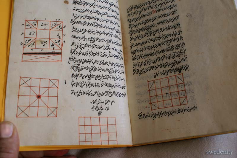 al-Risalah al-Asturlabiyah: A Treatise on Astrolabe by Nasir al-Din al-Tusi, from a private Arabic-language manuscript collection.